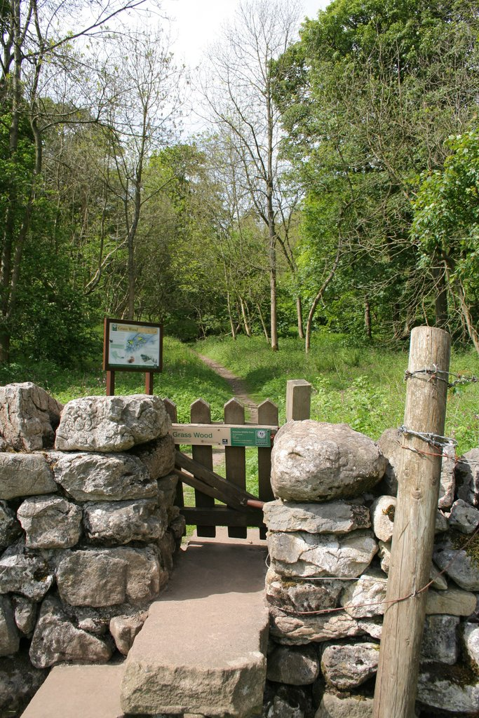 Grass Stile, Grass Wood Looking Northwest into Grass Wood